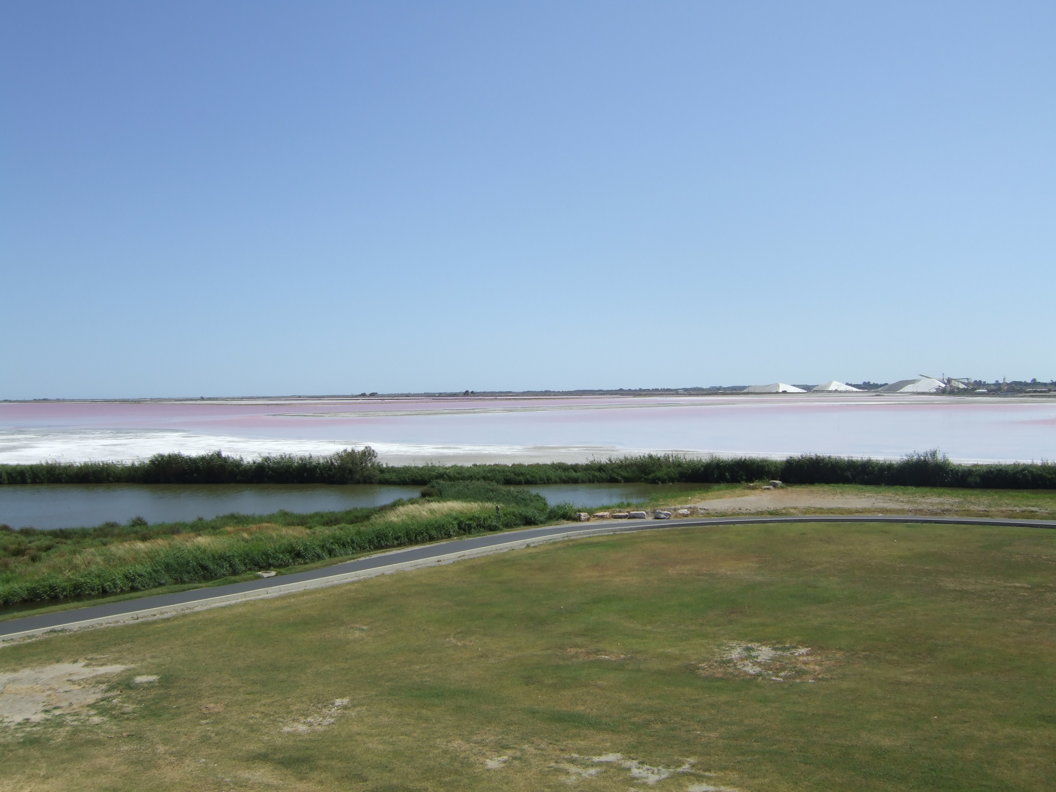 Saltworks at Aigues Mortes (Provence - France)